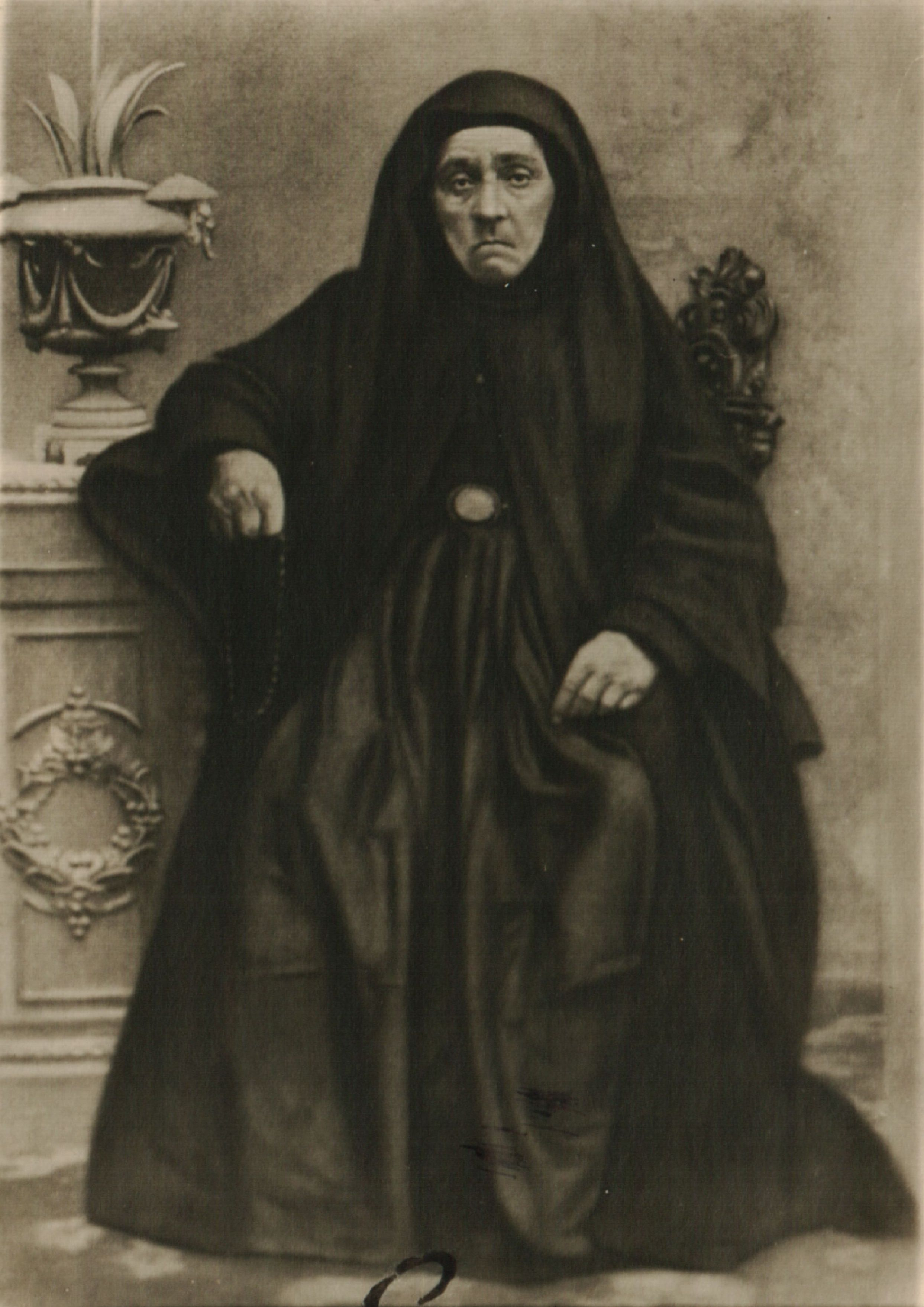 Anastasia Dimitrova - founder of the first girls' school in Bulgaria.